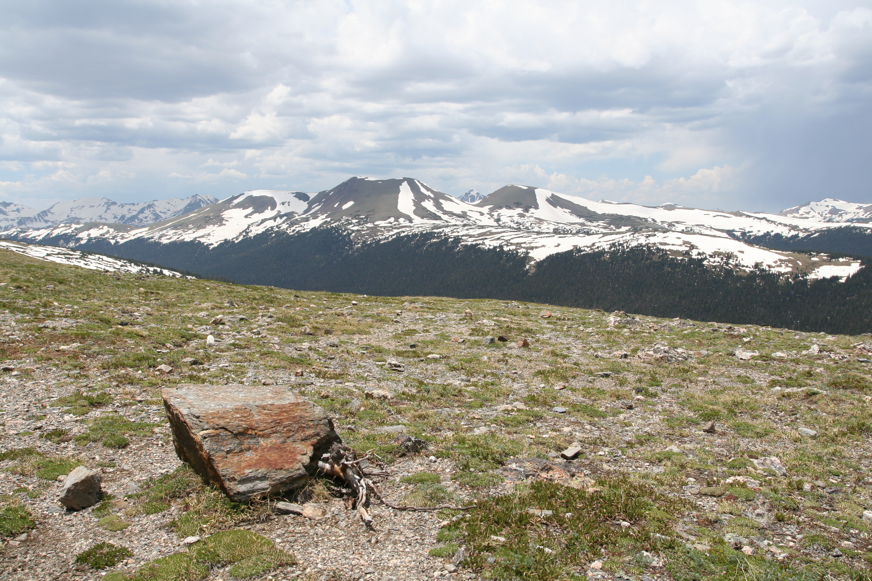 A photograph taken of a tundra landscape high in the Rocky Mountains National Park.